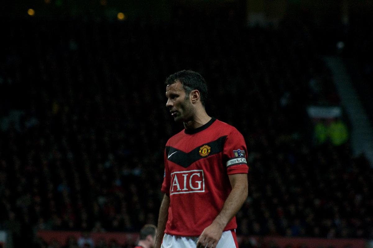 Ryan Giggs of Manchester United vs Everton. At Old Trafford, Manchester, November 2009.